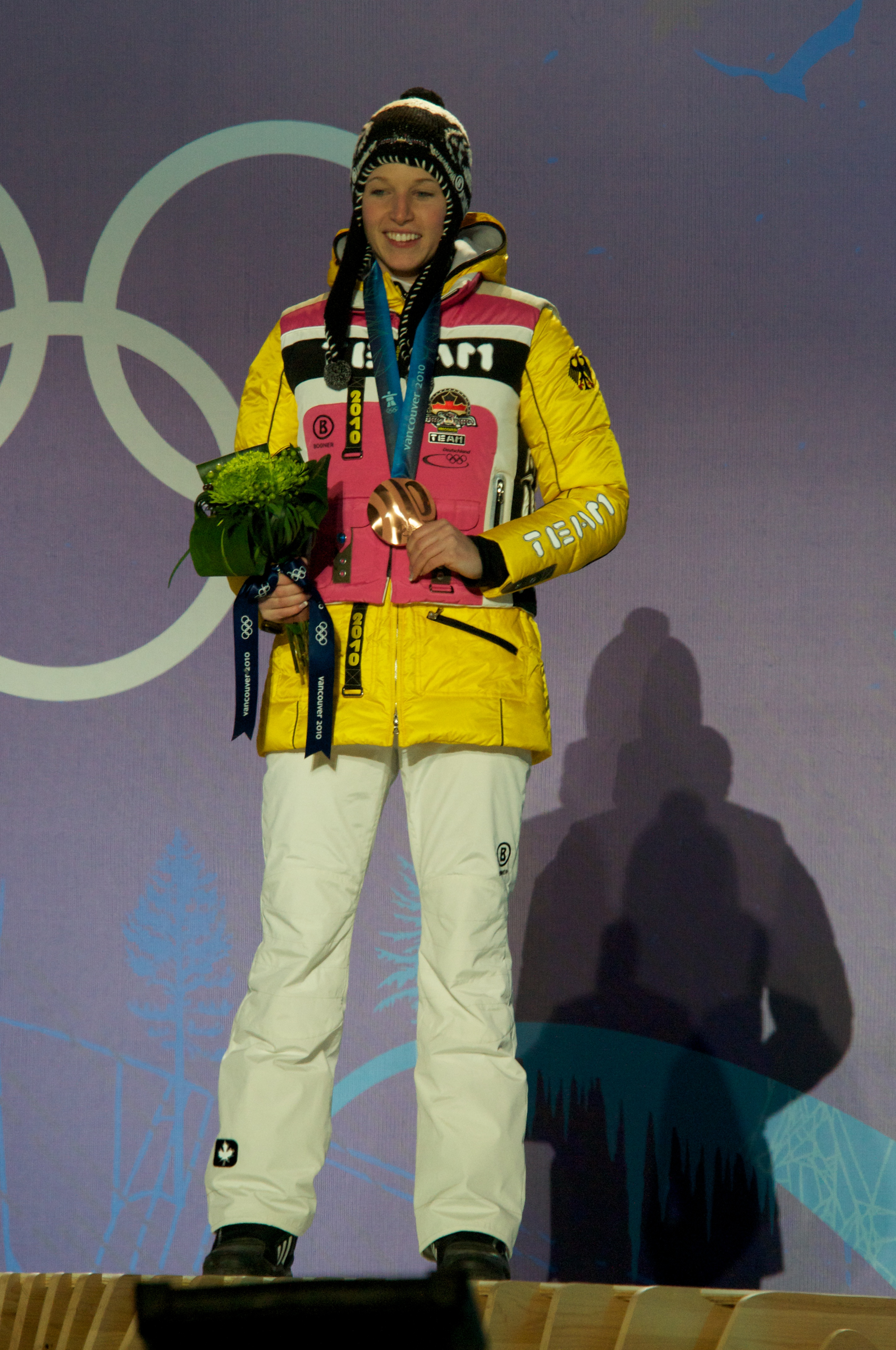 German skeleton racer Anja Huber (born 1983), winner of the bronze medal at the 2010 Winter Olympics in Vancouver, during the Medal Ceremony at Whistler